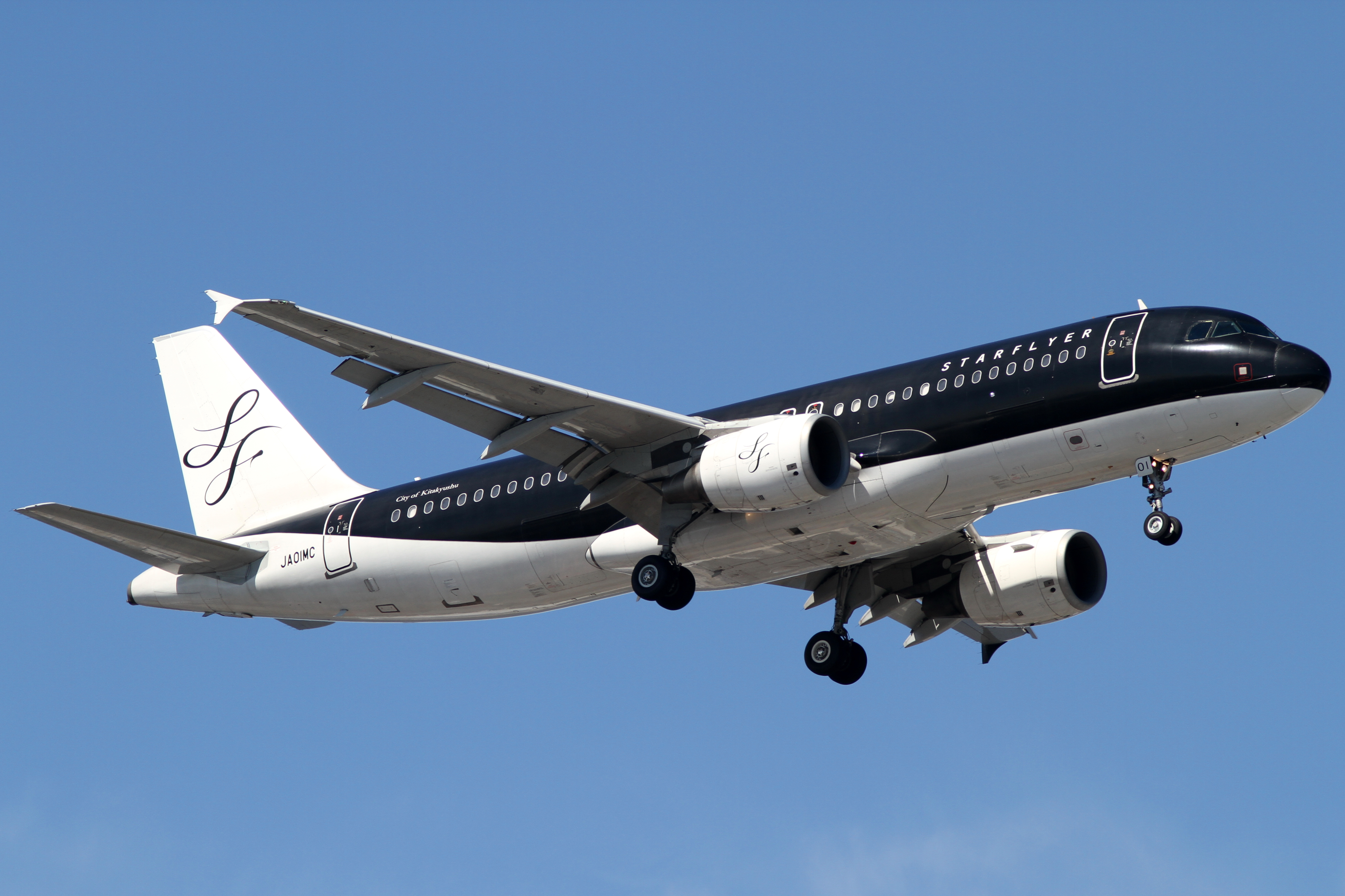 Tokyo International Airport, Airbus A320-214, c/n:2620, Star Flyer